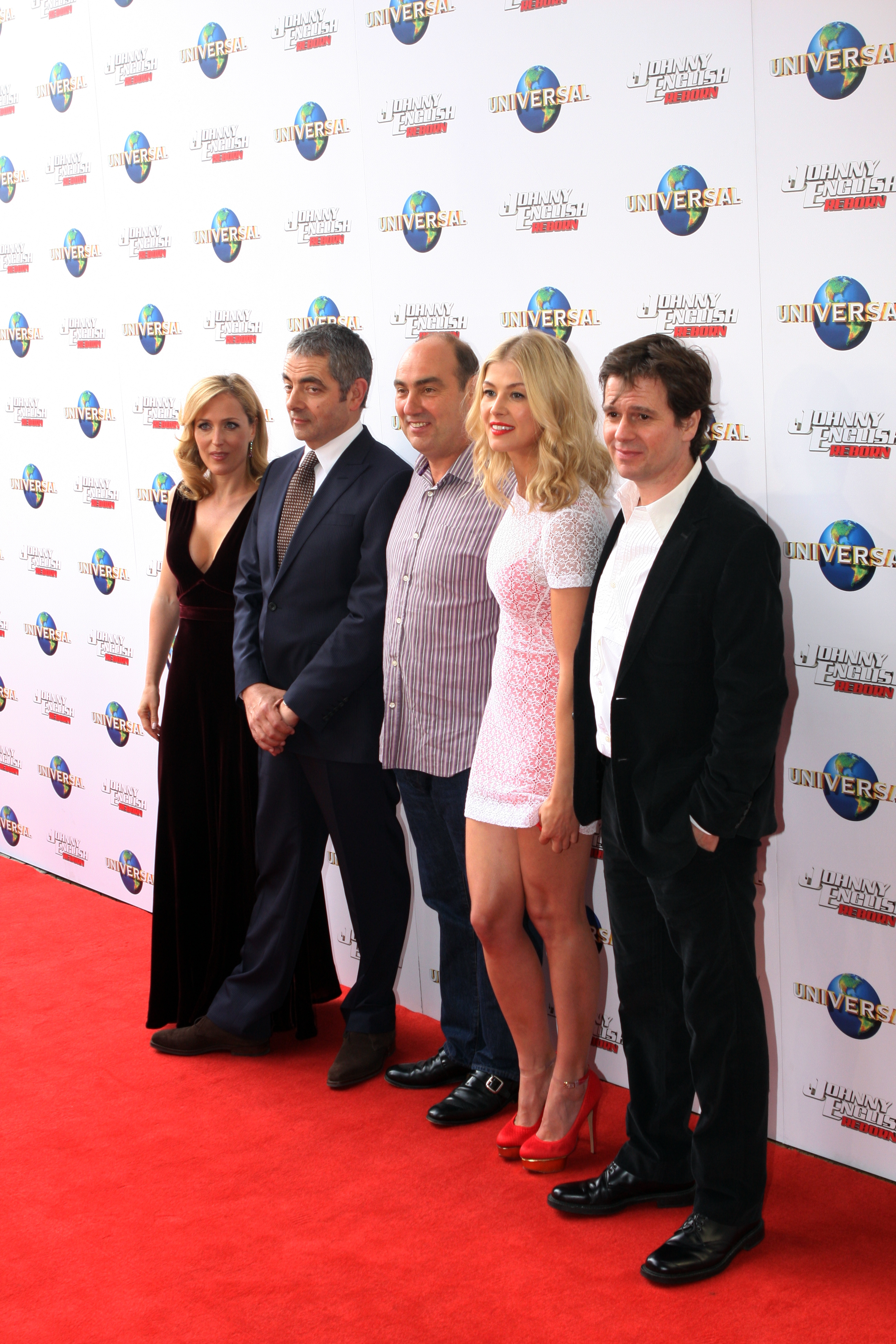 Johnny English Reborn Red Carpet Premiere Sydney